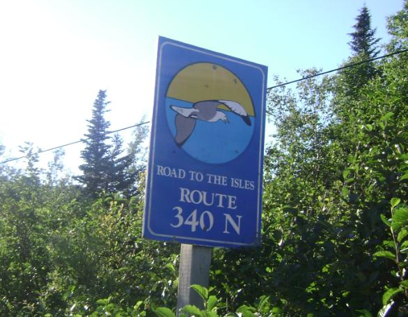 Road sign for Road To The Isles (Newfoundland & Labrador Route 340), heading north-bound towards Twillingate. Picture was taken around the New World Island area; a few miles from Twillingate, Newfoundland in August 2007.